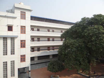 School